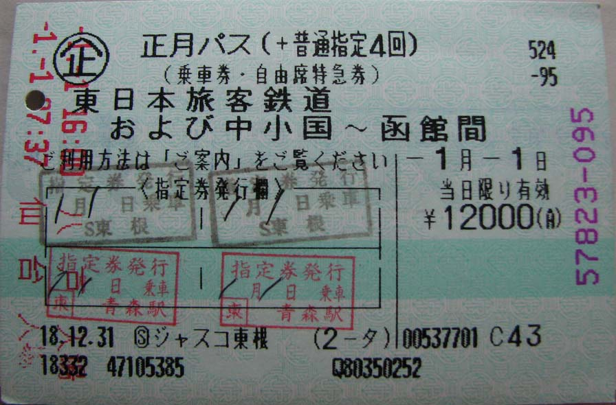 正月パス 本券（使用済み）Japanese Train Ticket (Shogatsu-pass Ticket)